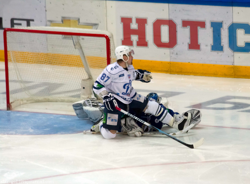 Dynamo Moscow forward Leo Komarov screens Amur Khabarovsk goalie Ján Lašák during KHL game on November 1, 2011.